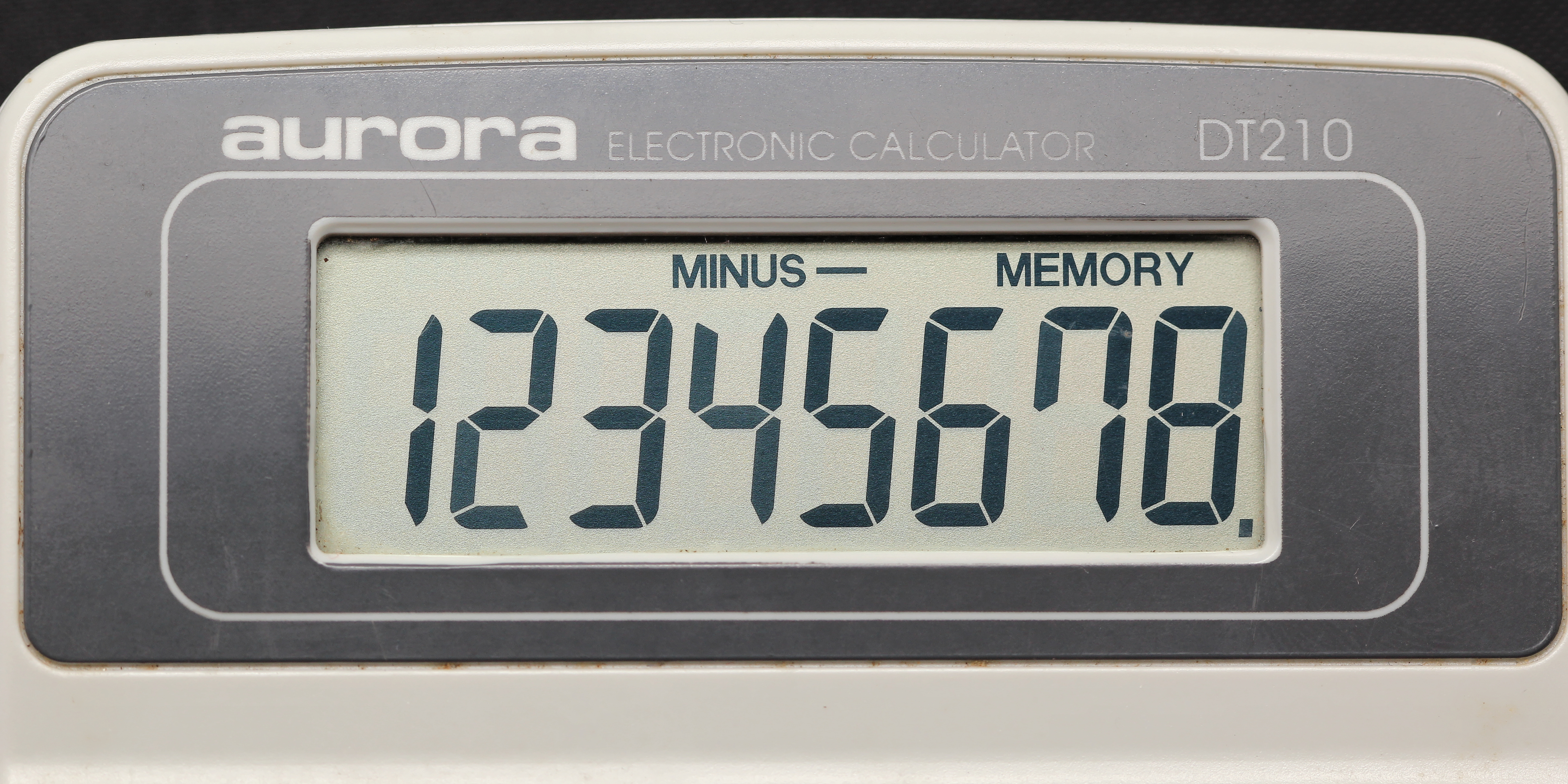 electronic calculator Spacious keypad for easy entry Large seven-segment 8 digit fixed angle display Durable hard keys 4 key memory and 4 constants +/–, % and square root keys Solar power with battery backup Rubber feet (For desk-top use) Manual and Auto power off